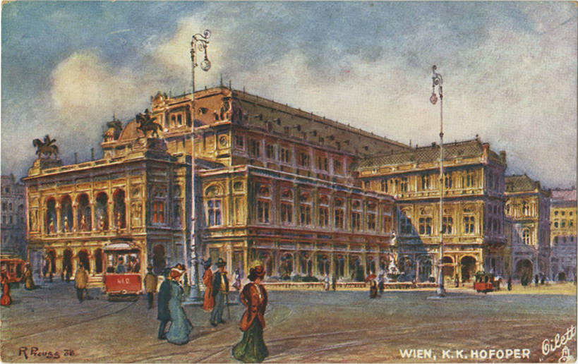 Collection " Deutscher Stadte, Wien " 646B. Oilette postcard view of the Vienna Opera House.